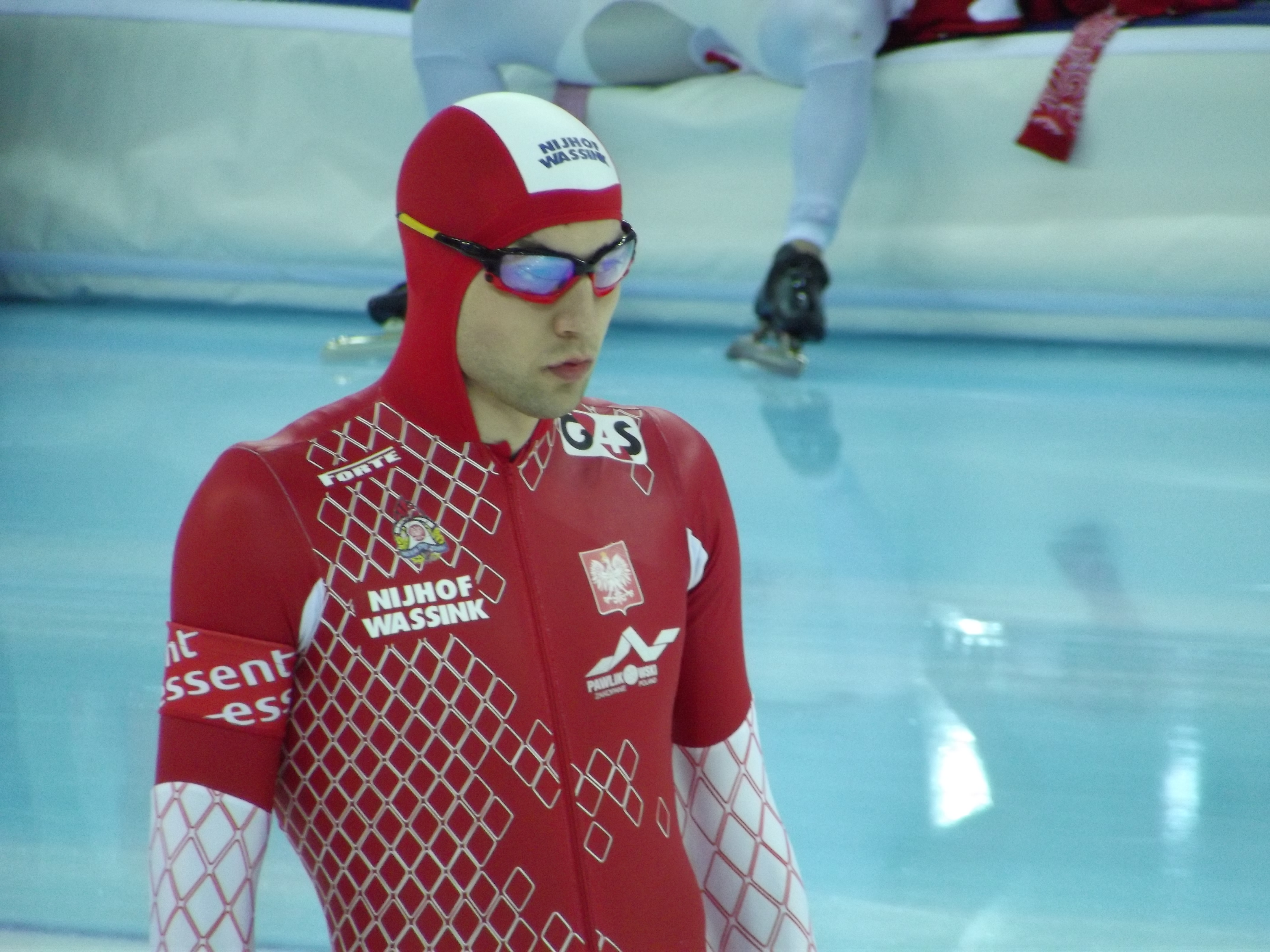 2013 World Single Distance Speed Skating Championships